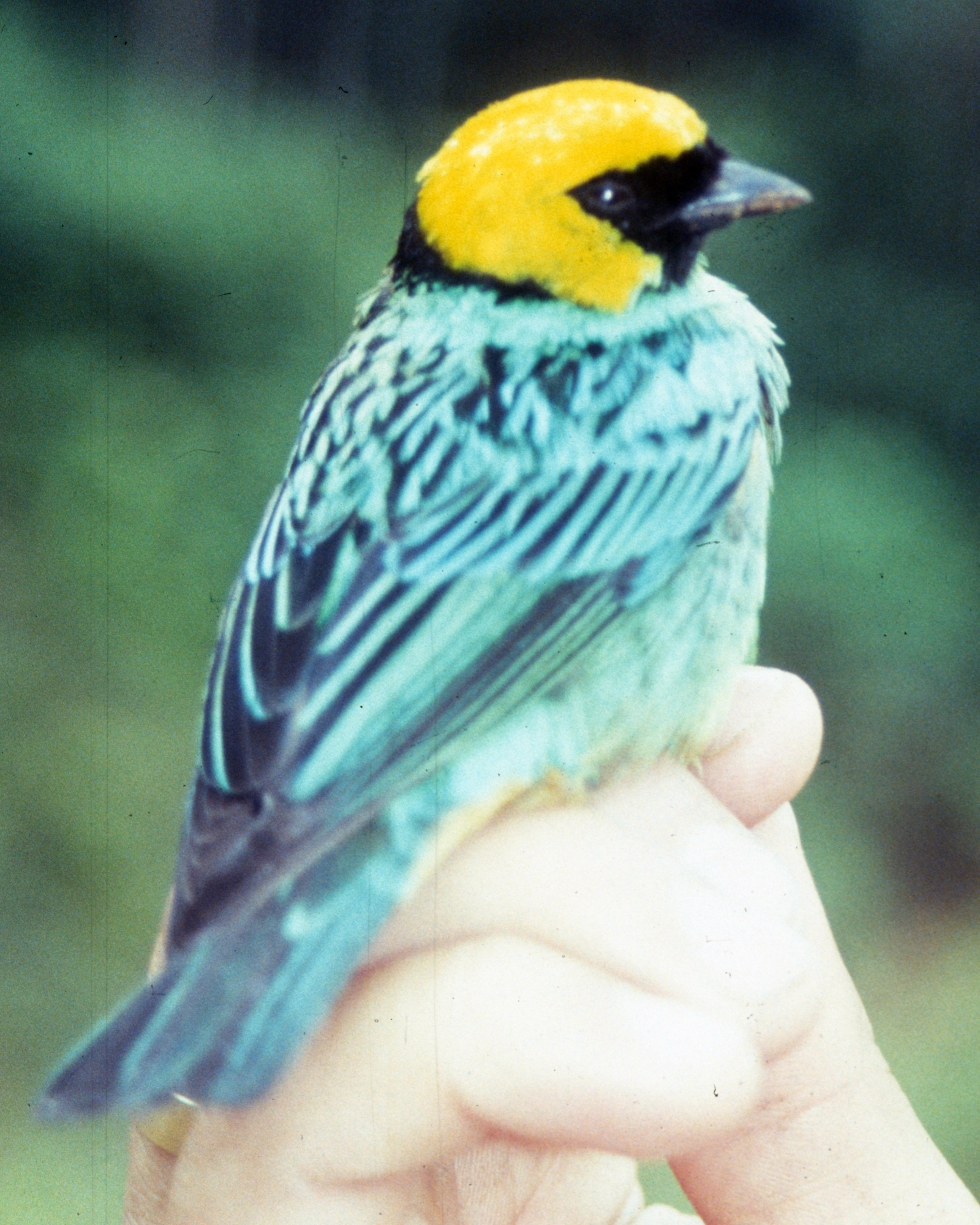 Saffron-crowned Tanager (Tangara xanthocephala) from Ecuador